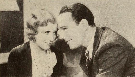 Mary Doran e William Haines in Remote Control (1930), Screenland Magazine.